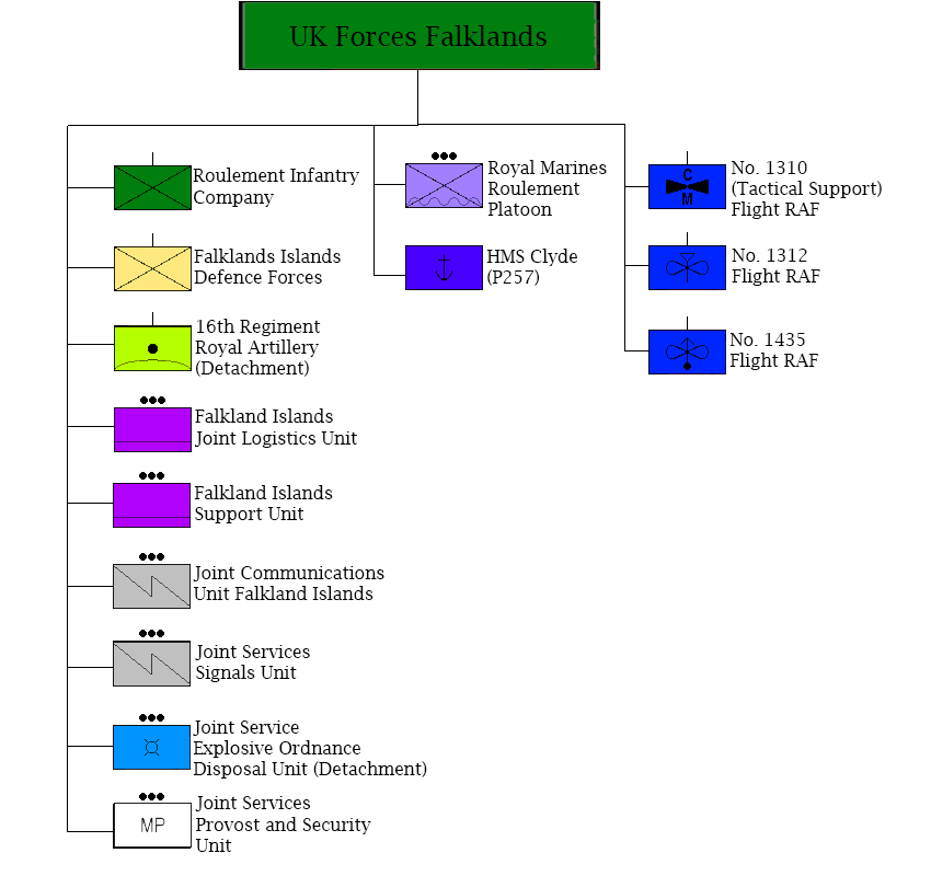 United Kingdom Forces (Falkland Islands)